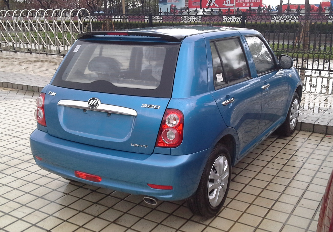 Lifan 330 photographed in Shanghai, China.